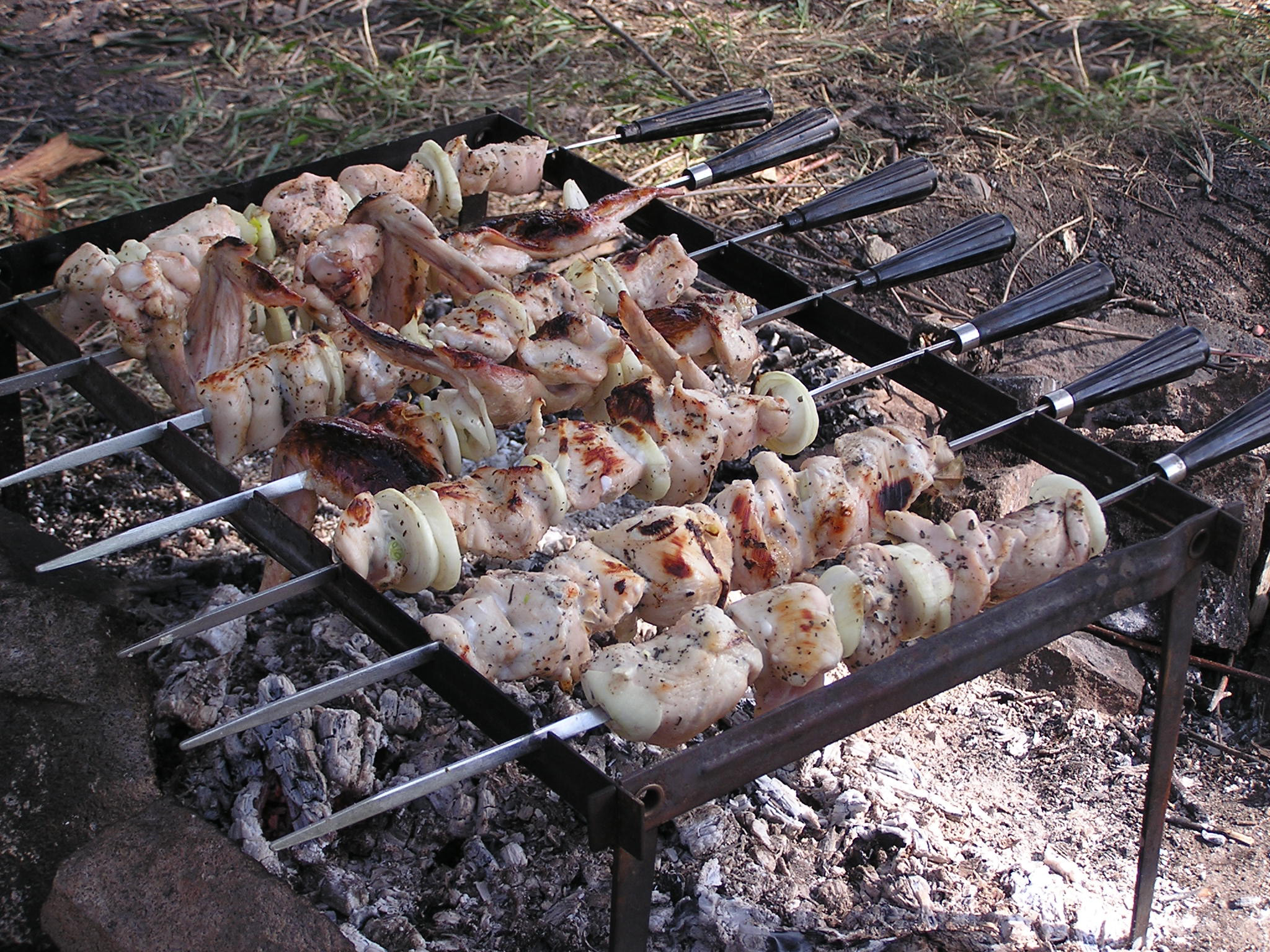 Shashliks on mangal